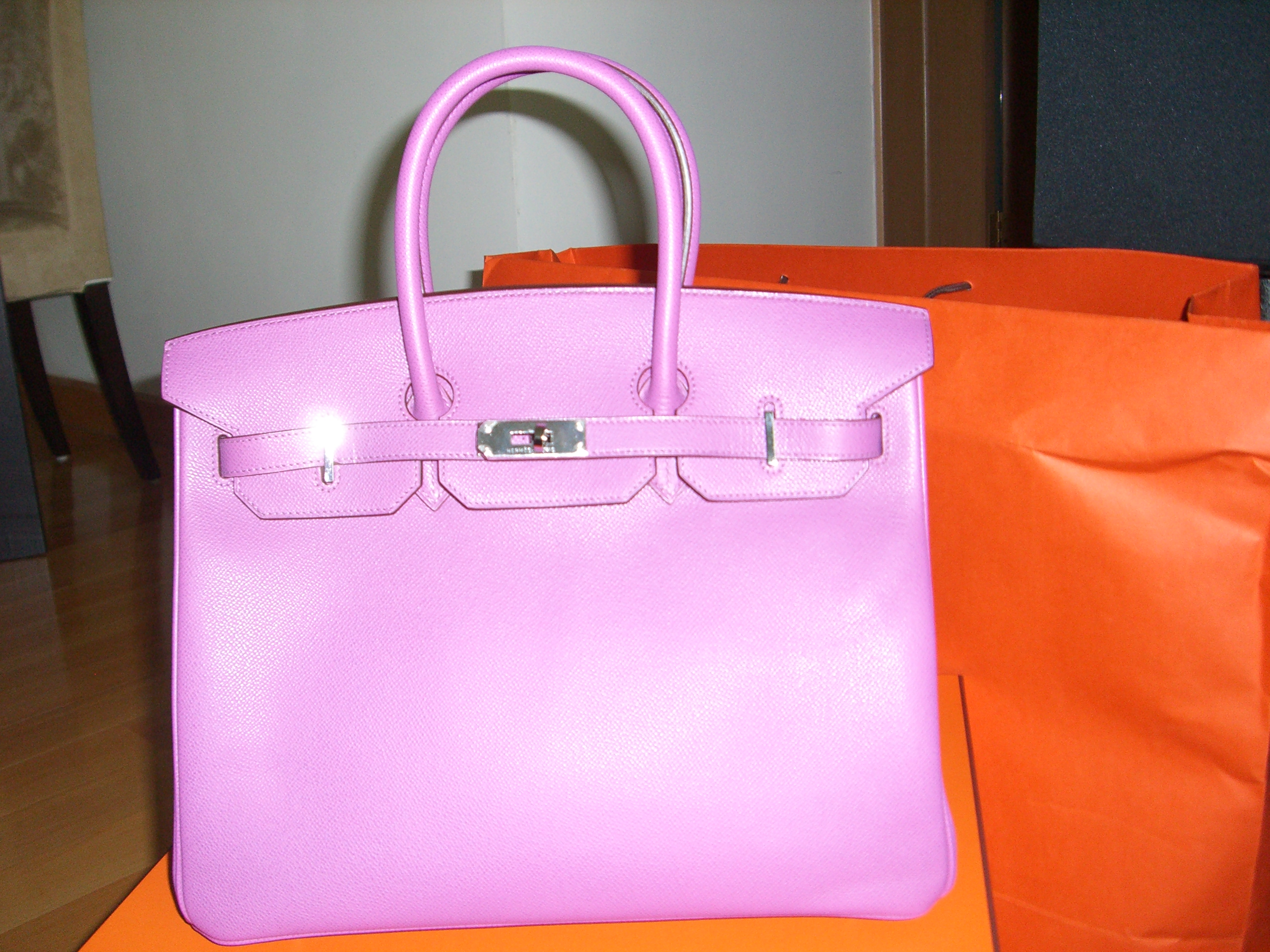 A picture of a genuine Hermes Birkin taken by me.